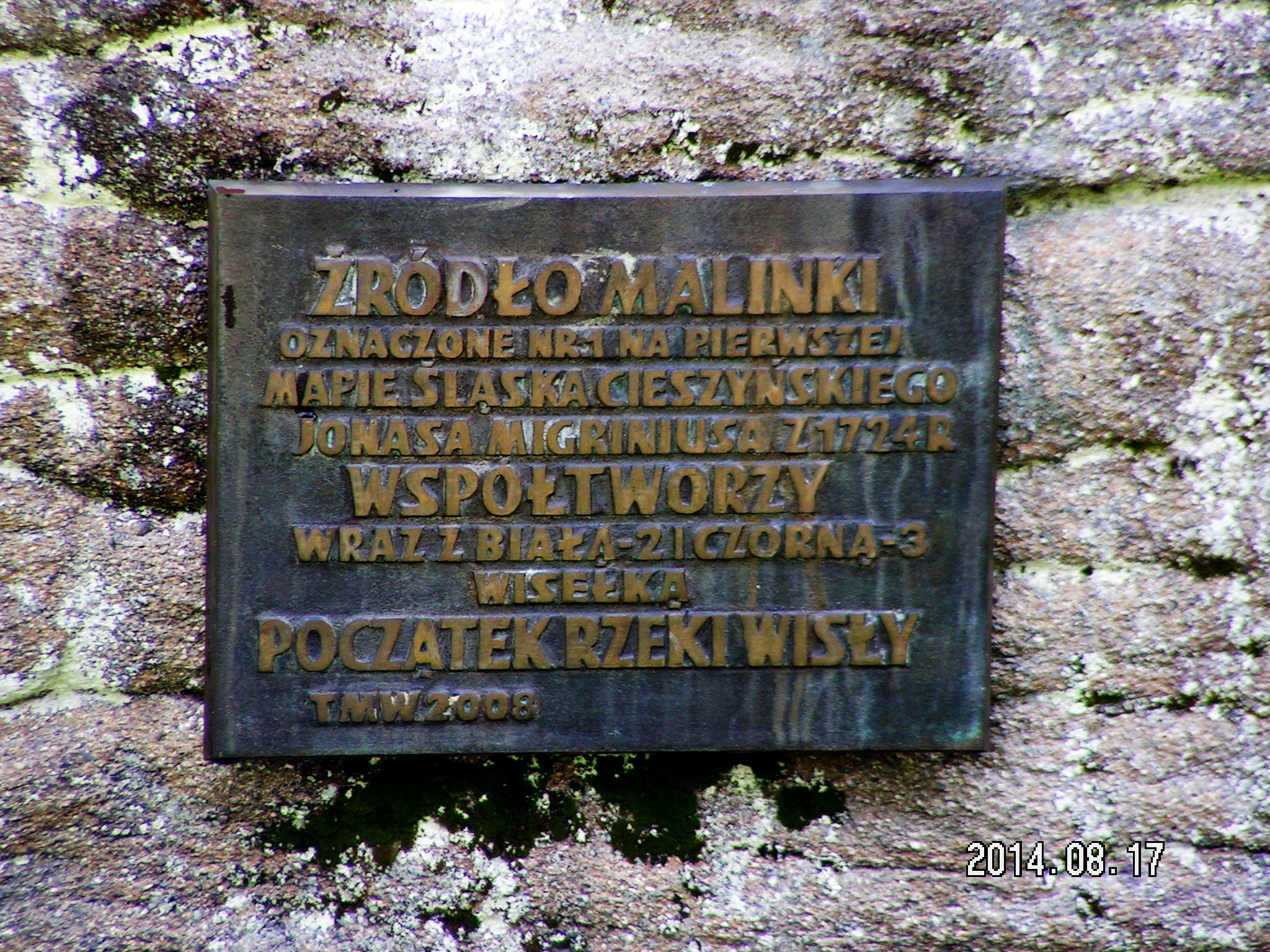 An information table that labels the source of Malinka on Malinowska Skala